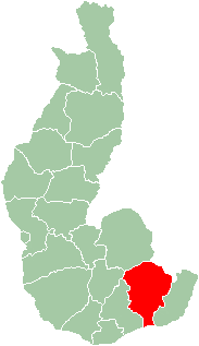 Location map of Amboasary region in Toliara province.